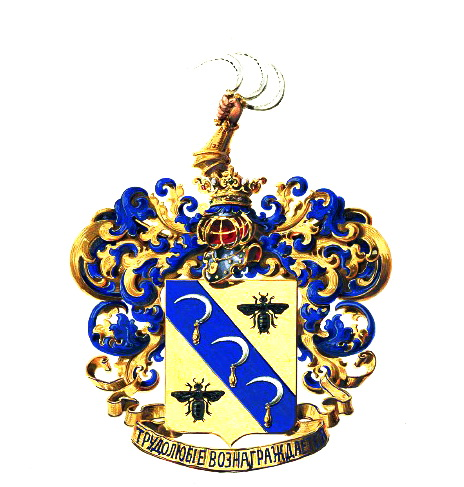 Coat of arms of the family Drobyazgin